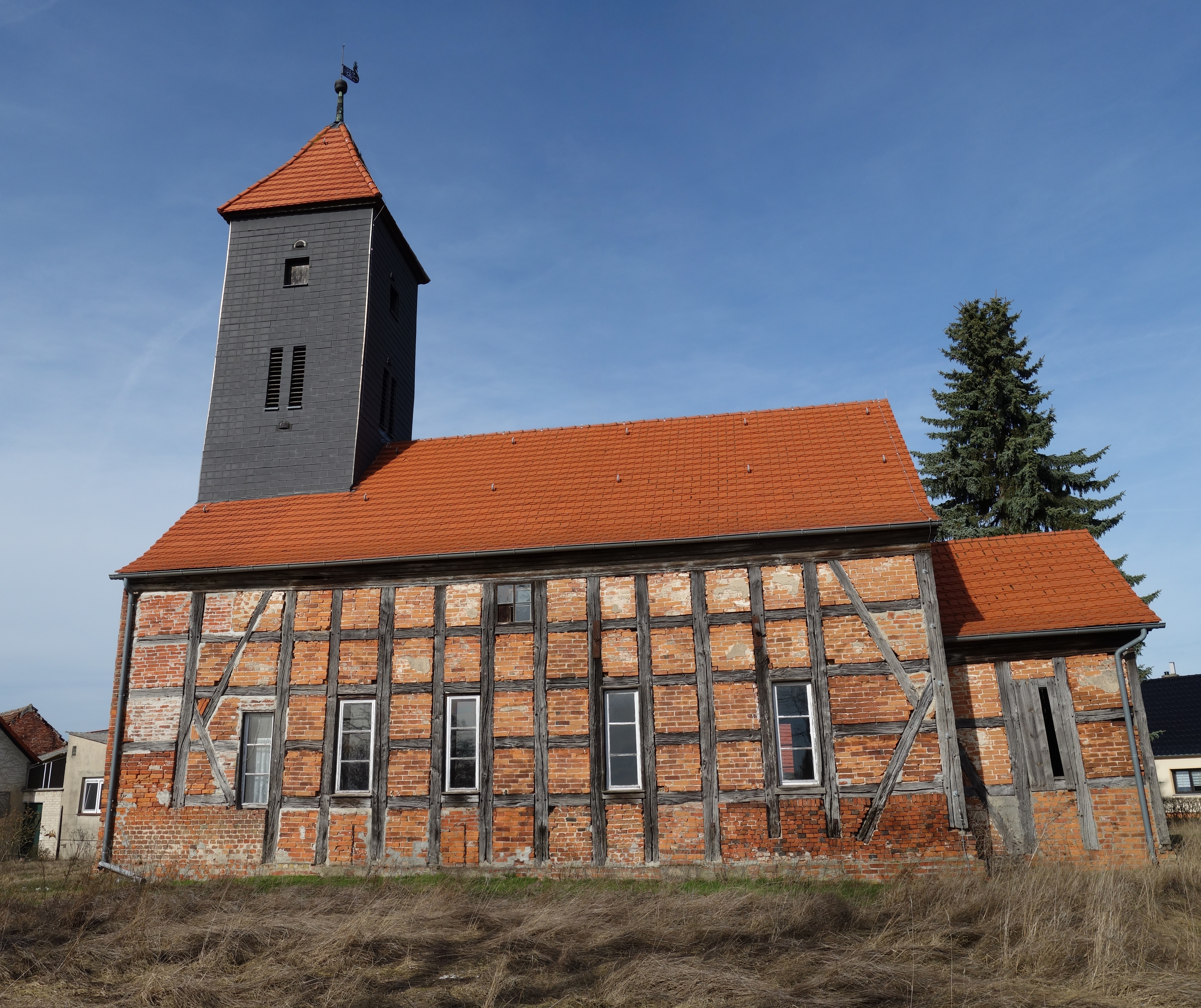 Southern view of church in Knoblauch, Milower Land municipality, Havelland district, Brandenburg state, Germany.